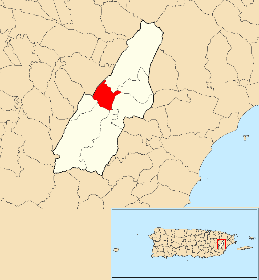 Quebrada Arenas, Las Piedras, Puerto Rico locator map